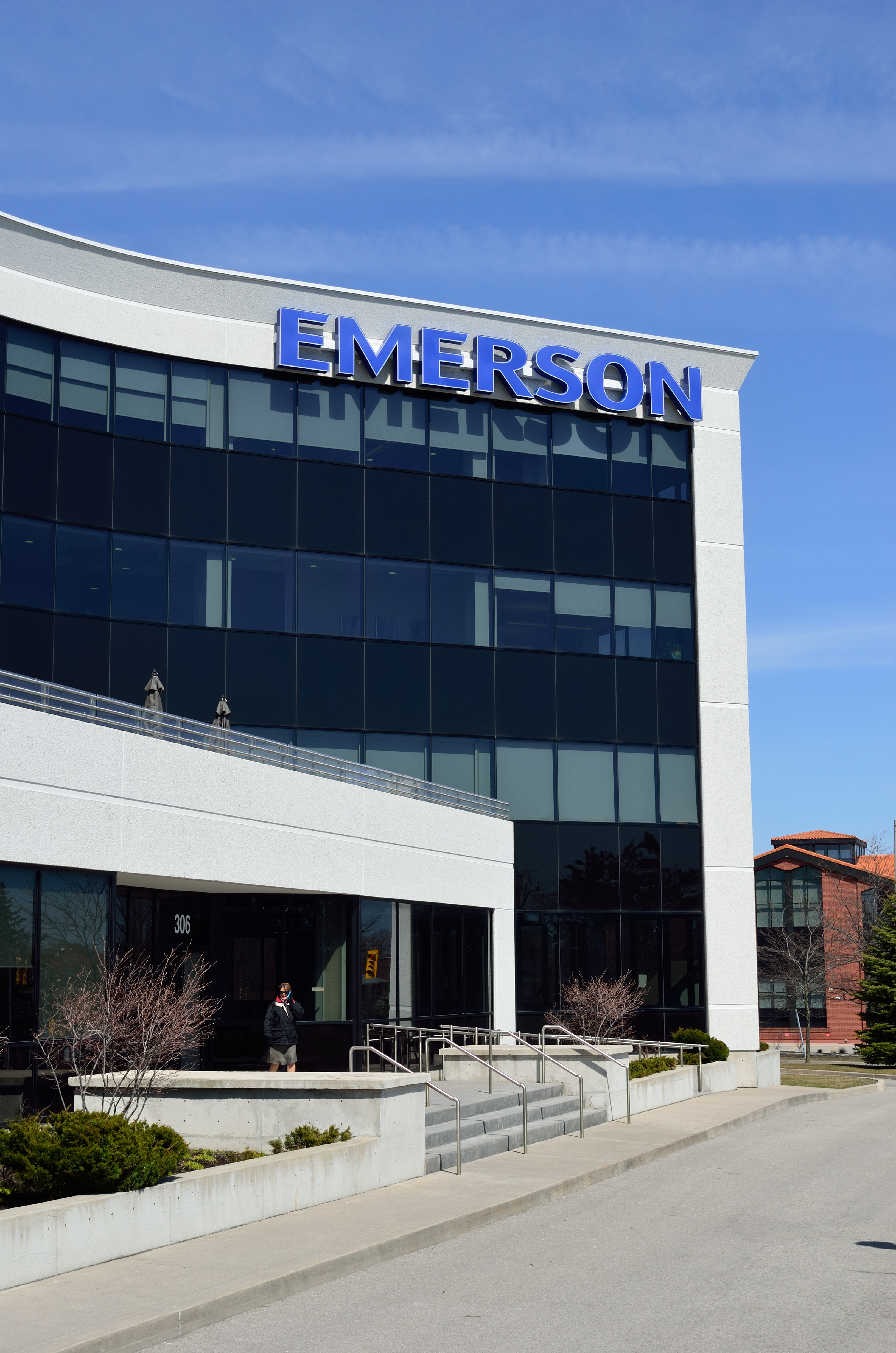 Emerson Electric Canada - Address: 306 Town Centre Blvd, Markham, ON L3R 0Y6